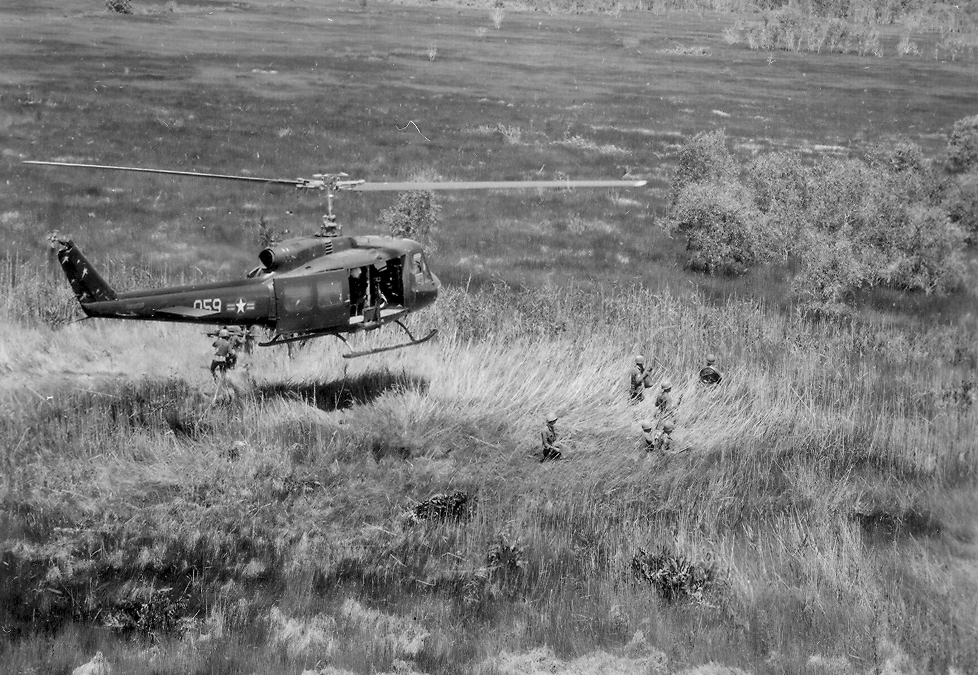 On 18 July 1970, a South Vietnamese Air Force (VNAF) UH-1D Huey helicopter hovers above Vietnamese Air Force personnel of the 211th Helicopter Squadron on a combat assault in the Mekong Delta area of Vietnam.